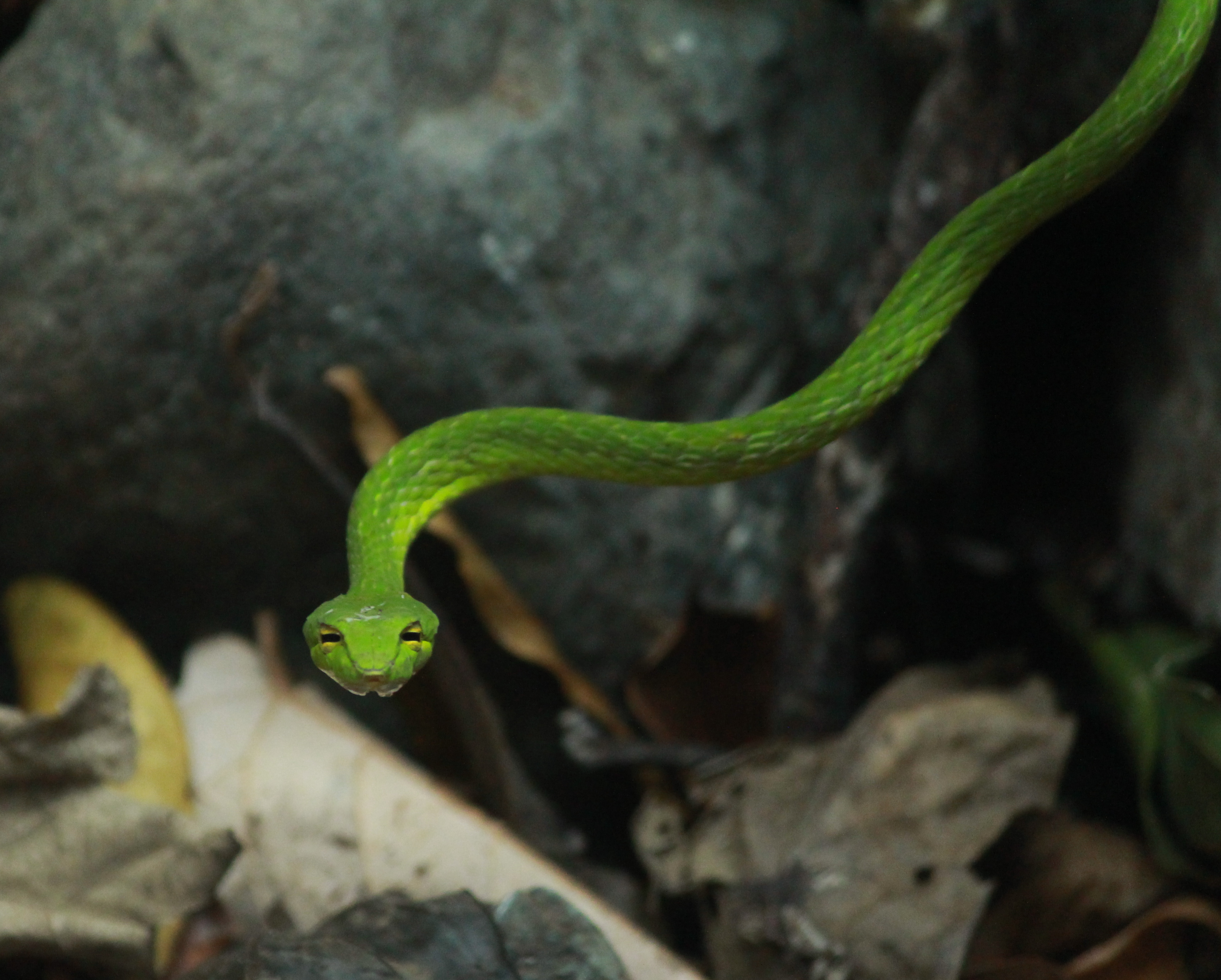 Big-eye Green Whip Snake (Ahaetulla mycterizans) at Taman Nasional Bogani Nani Wartabone